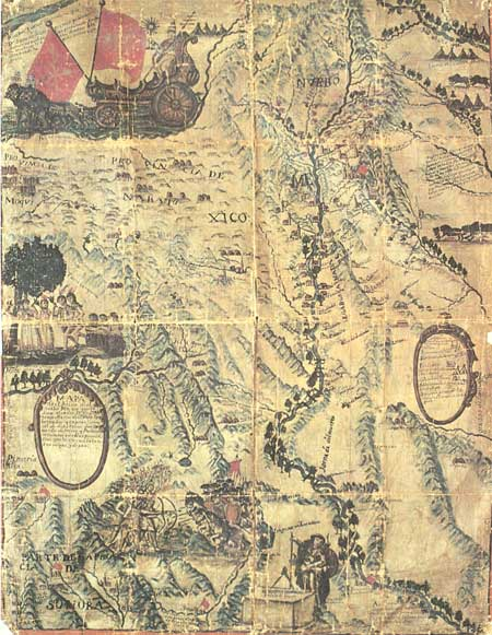 "Map of Kingdom of New Mexico dedicated to Señor don Francisco Antonio Marín del Valle, governor and captain general of said kingdom, by don Bernardo de Miera y Pacheco, showing the provinces that surround it, enemy and peaceful,".